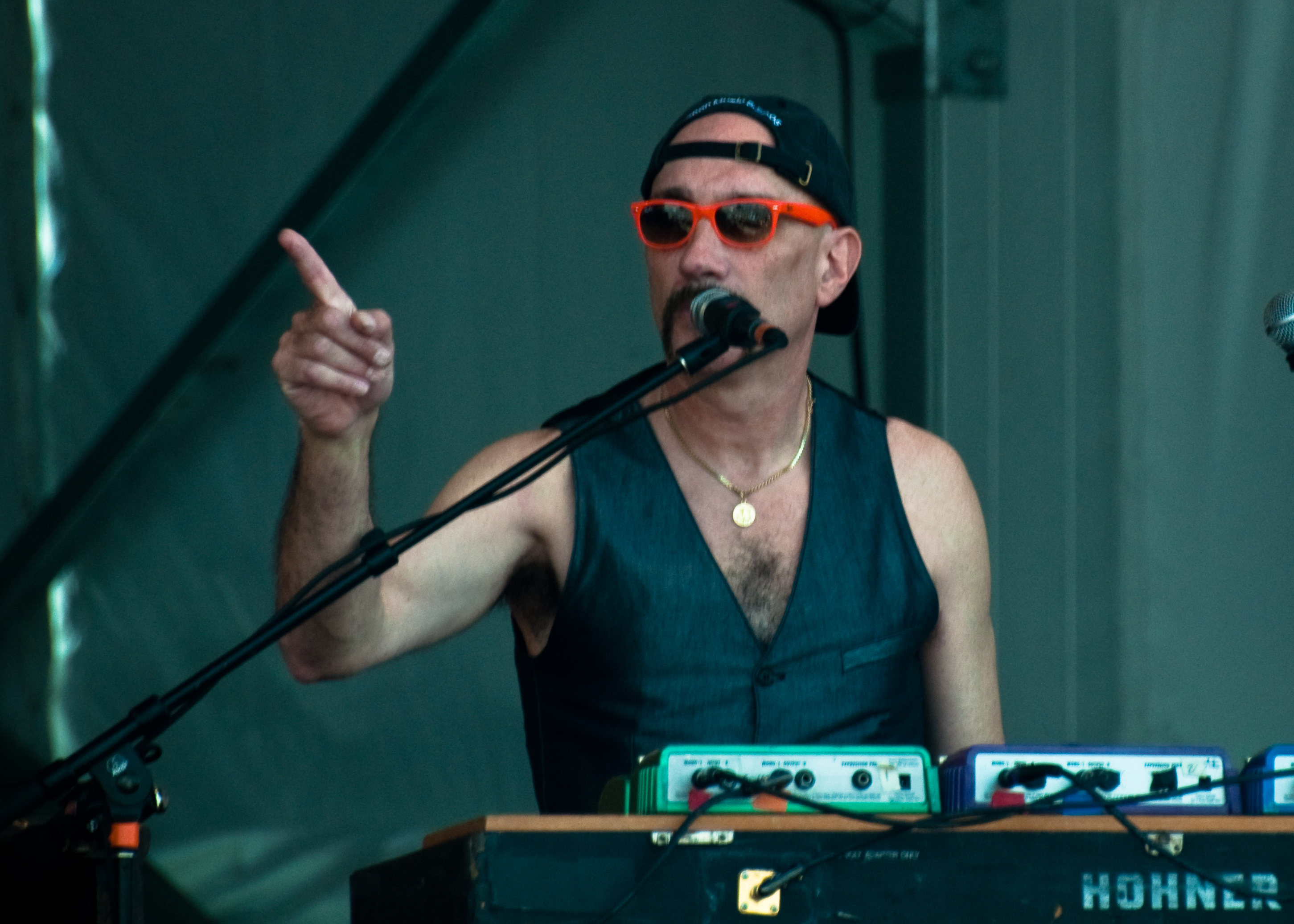 Danny Louis - Gov't Mule keys, New Orleans Jazz Fest